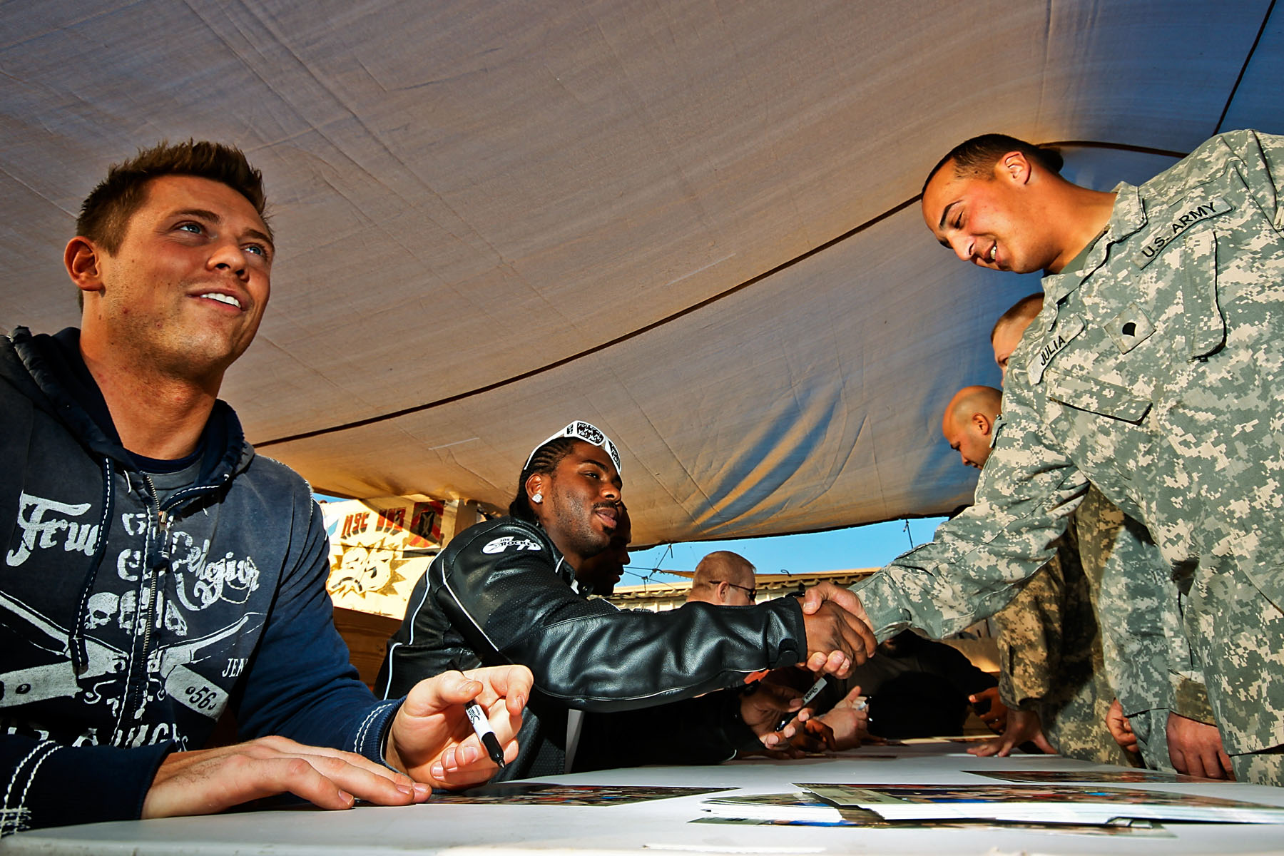 World Wrestling Entertainment superstars Mike 'The Miz' Mizanin (left) and JTG (center), sign autographs with Soldiers from the 615th Aviation Support Battalion,1st Air Cavalry Brigade, 1st Cavalry Division, here, Dec. 2, as part of a Morale, Welfare and Recreation sponsored WWE visit.